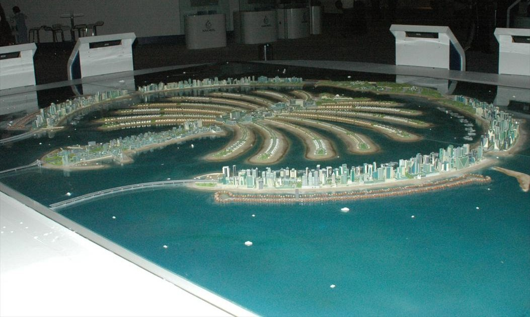 This is a photo of a model of the Palm Jebel Ali on 20 January 2008. The model was at the Tourism Development Projects & Investment Market 2008 (TDIM 2008) in the Dubai International Exhibition & Convention Centre.